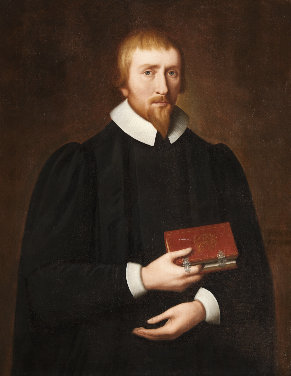 Portrait of Christopher Potter by either Cornelis Janssens van Ceulen or Gilbert Jackson